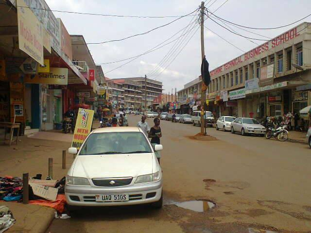 Main avenue